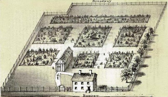 The New York Vauxhall Gardens in 1803. 11 x 18 cm. (4 1/4 x 7 in.)